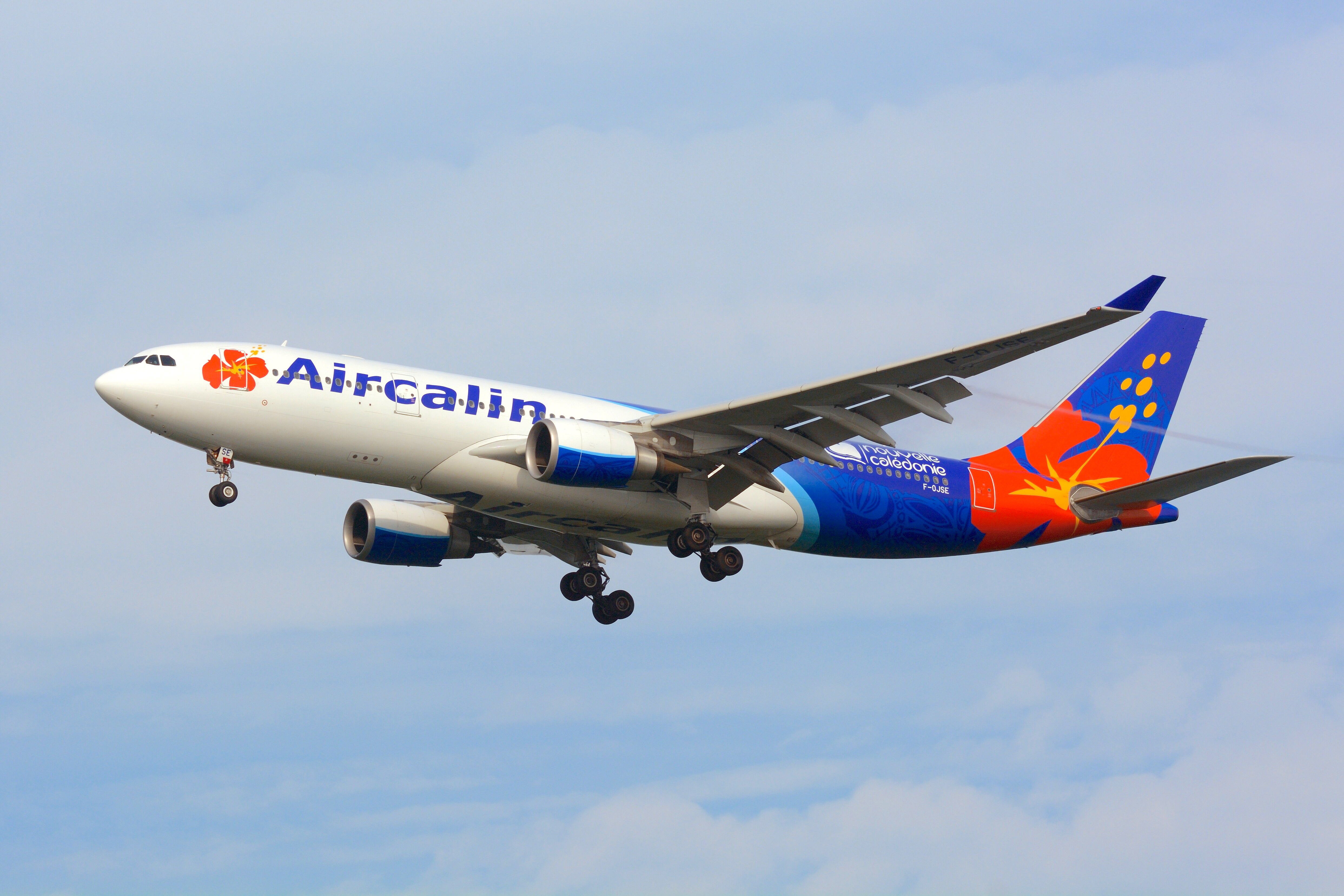 AirCalin, Airbus A330-200 F-OJSE NRT